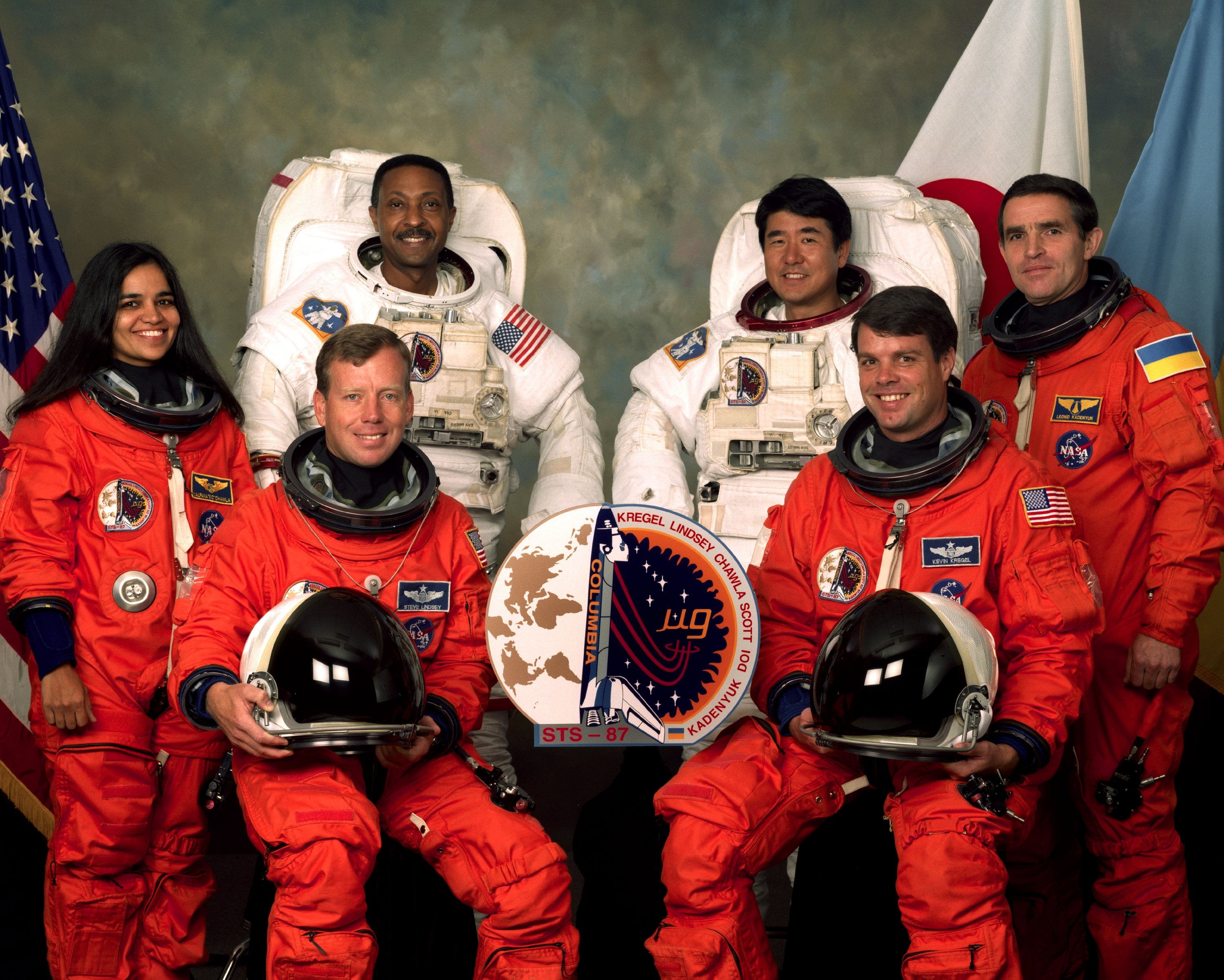 Five astronauts and a payload specialist take a break from training at the Johnson Space Center (JSC) to pose for the STS-87 crew portrait. Wearing the orange partial pressure launch and entry suits, from the left, are Kalpana Chawla, mission specialist; Steven W. Lindsey, pilot; Kevin R. Kregel, mission commander; and Leonid K. Kadenyuk, Ukrainian payload specialist. Wearing the Extravehicular Mobility Unit (EMU) space suits are astronauts Winston E. Scott and Takao Doi, both mission specialists. Doi represents Japan’s National Space Development Agency (NASDA). The flight is scheduled as a 16-day mission aboard the Space Shuttle Columbia in late November.